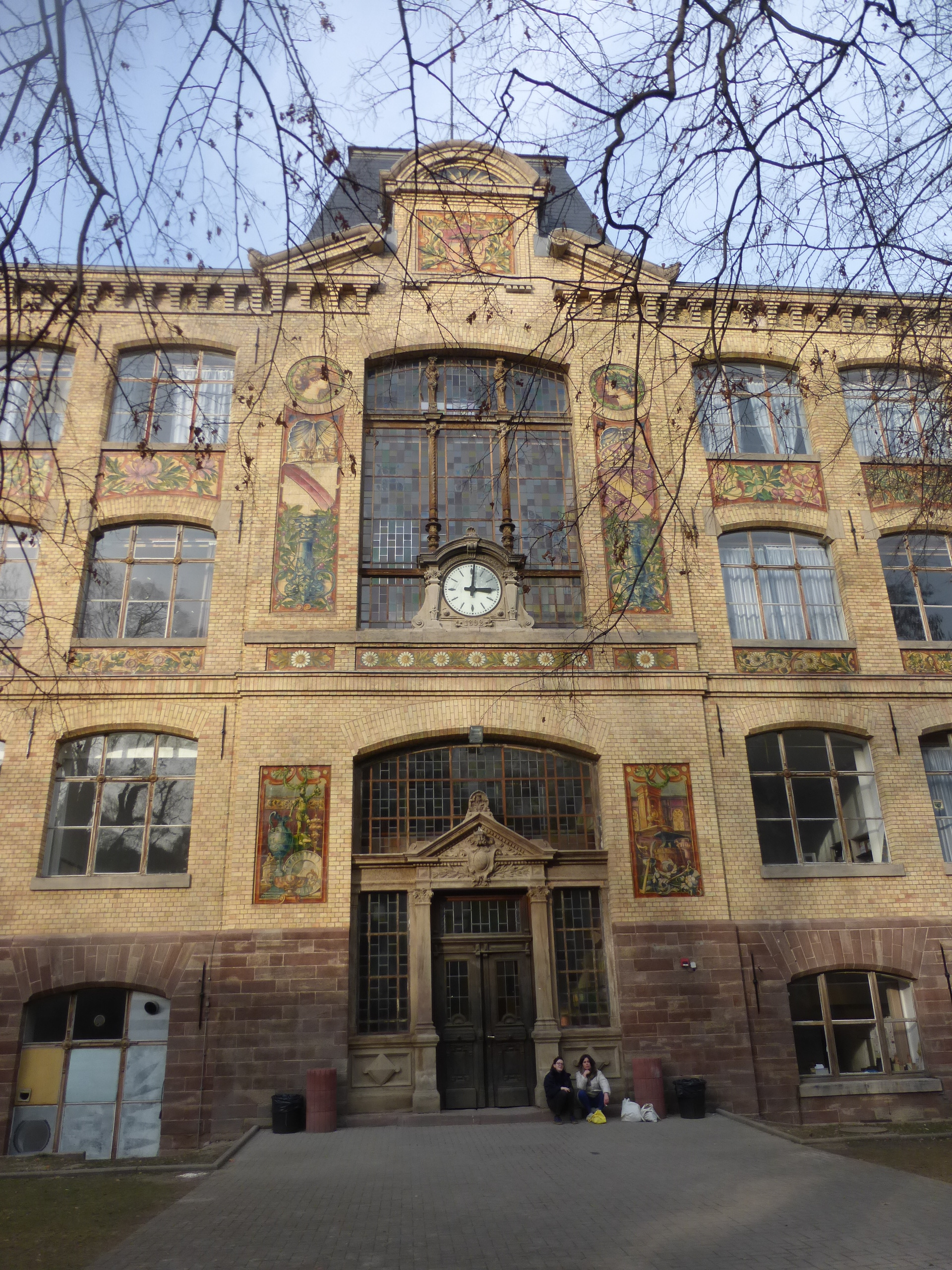 The Strasbourg municipal art school in January 2017